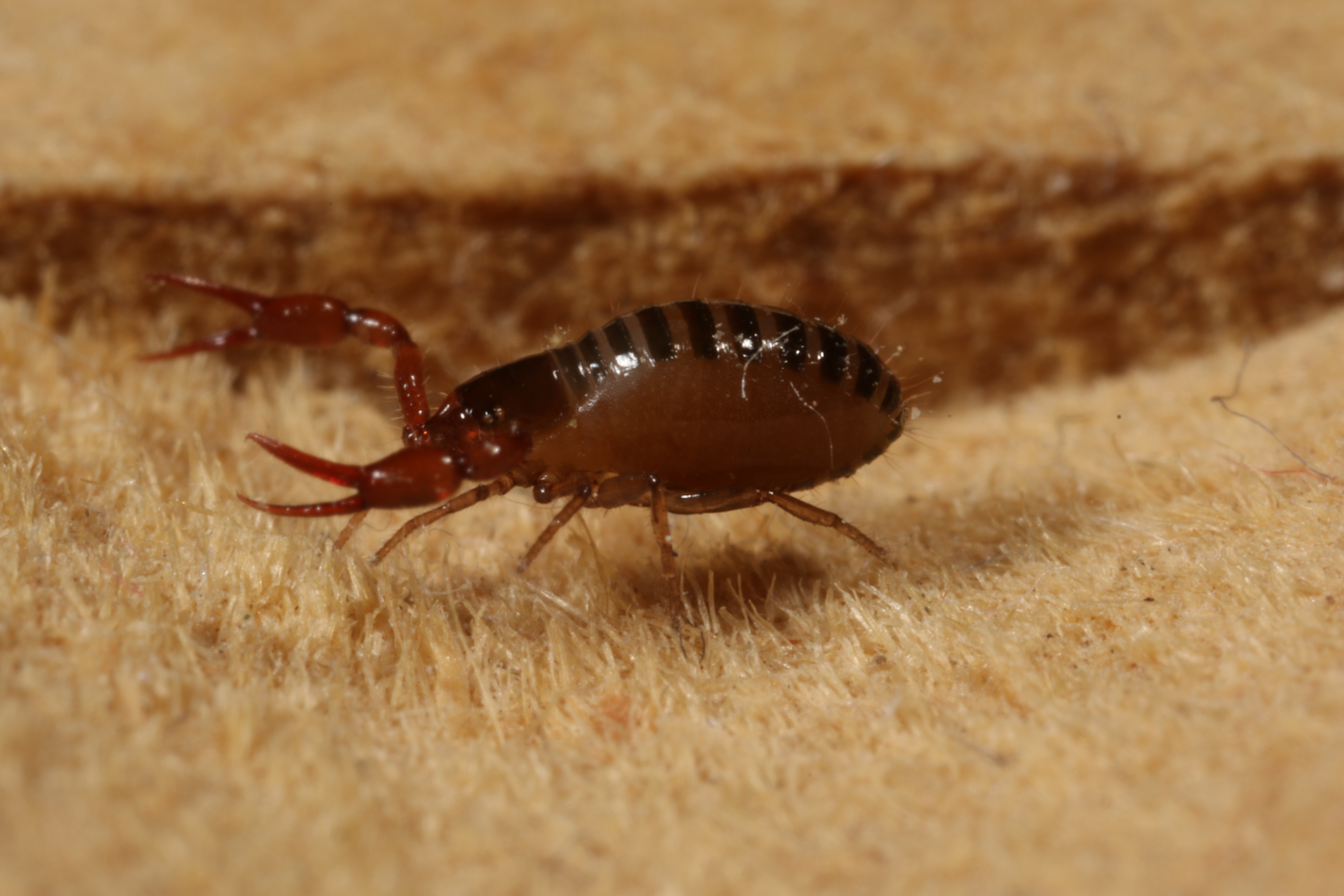 Neobisium carcinoides (Hermann 1804), sieved from soil/litter, Søborg, Denmark, 25 March 2016